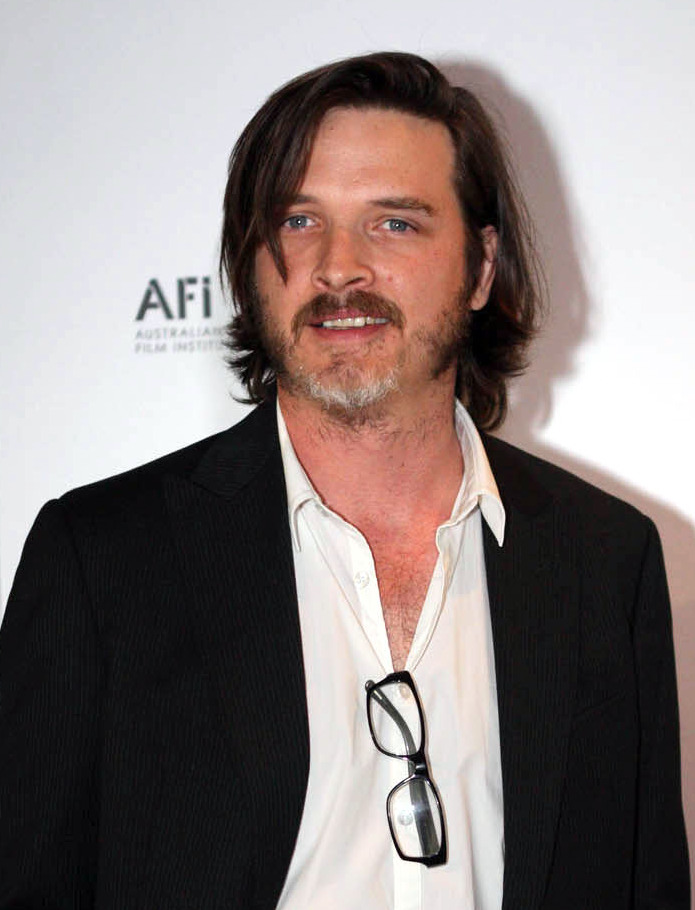 Aden Young. AACTA Awards Results From Sydney, Australia